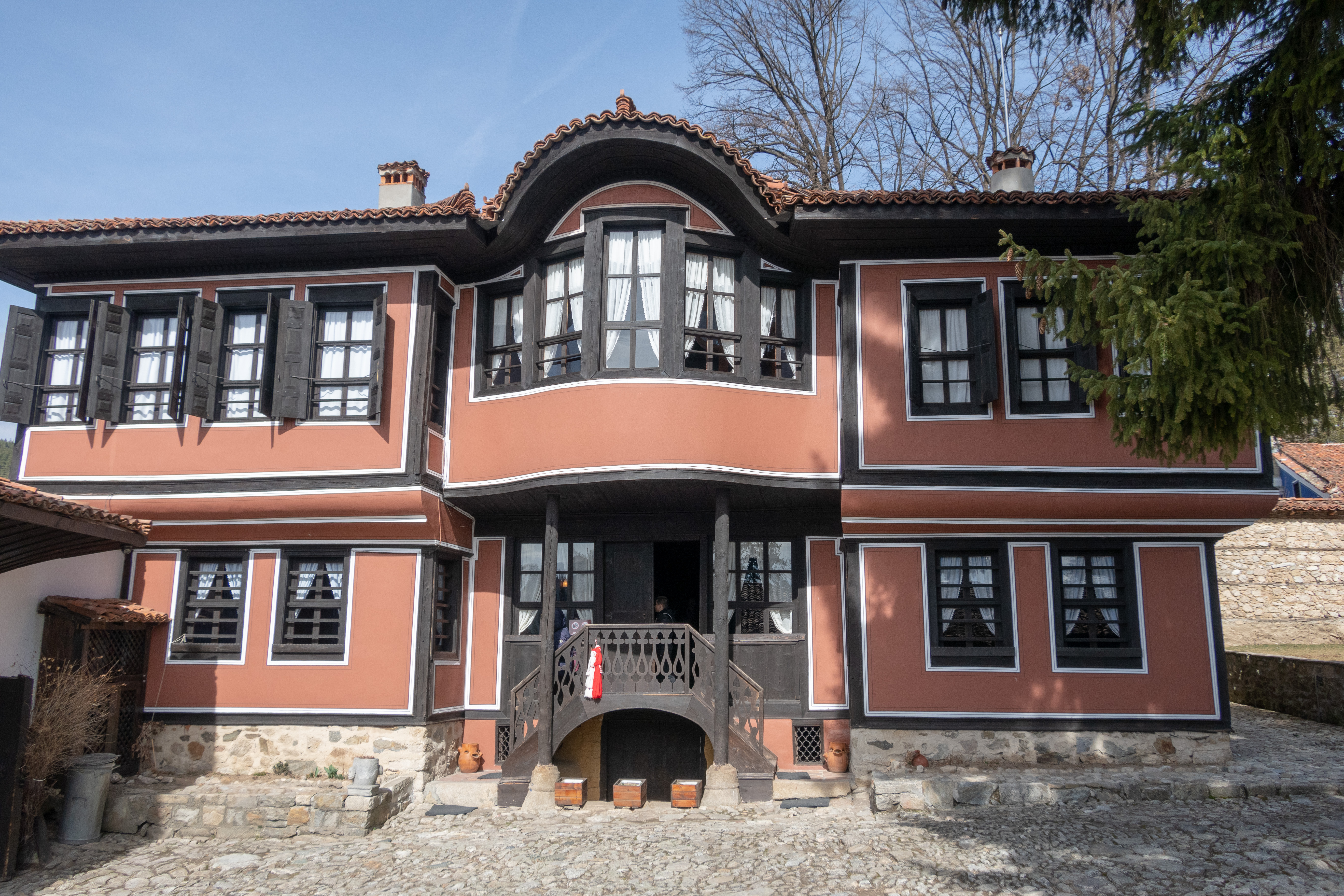 Kableshkov House